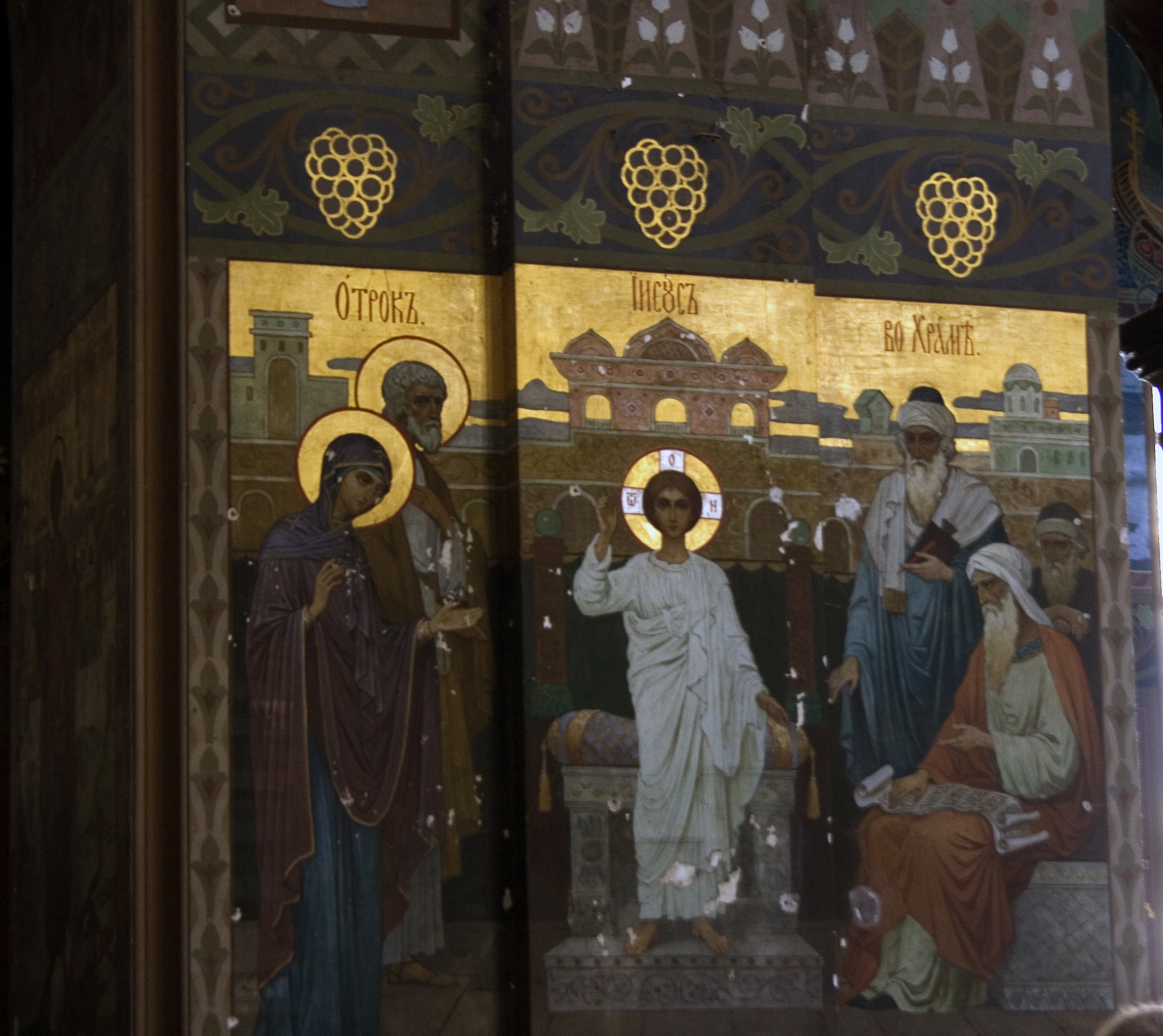 monastery in New Athos